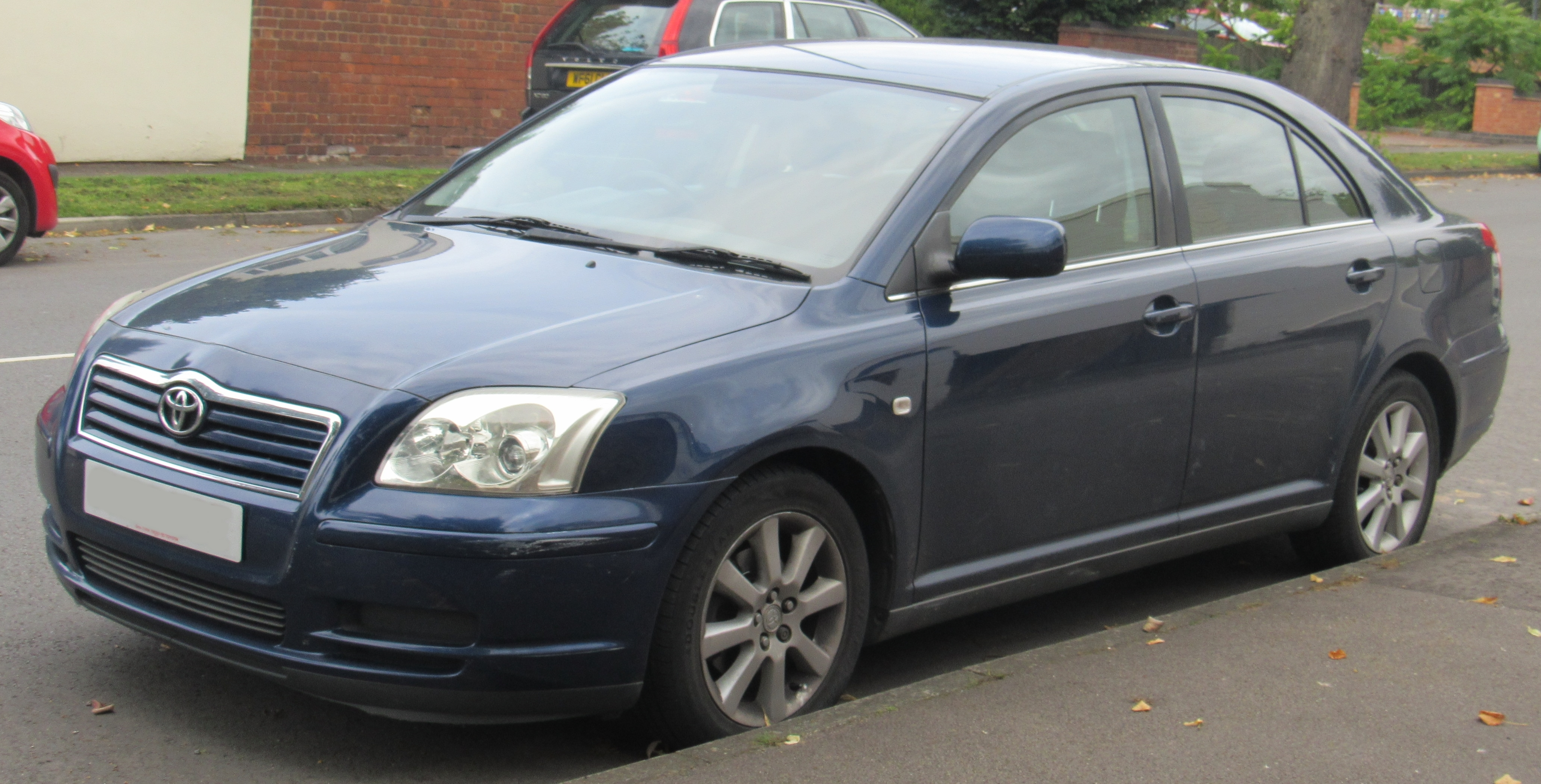 2003 Toyota Avensis T3-S 1.8 Front Taken in Leamington Spa